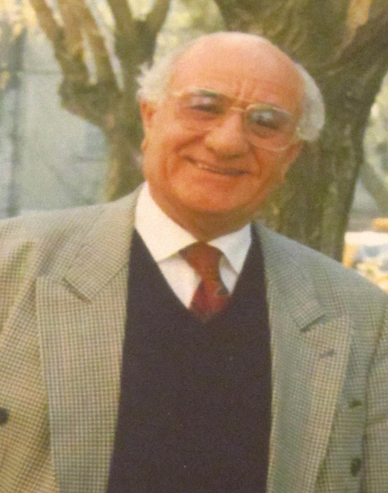 Dursun Akçam